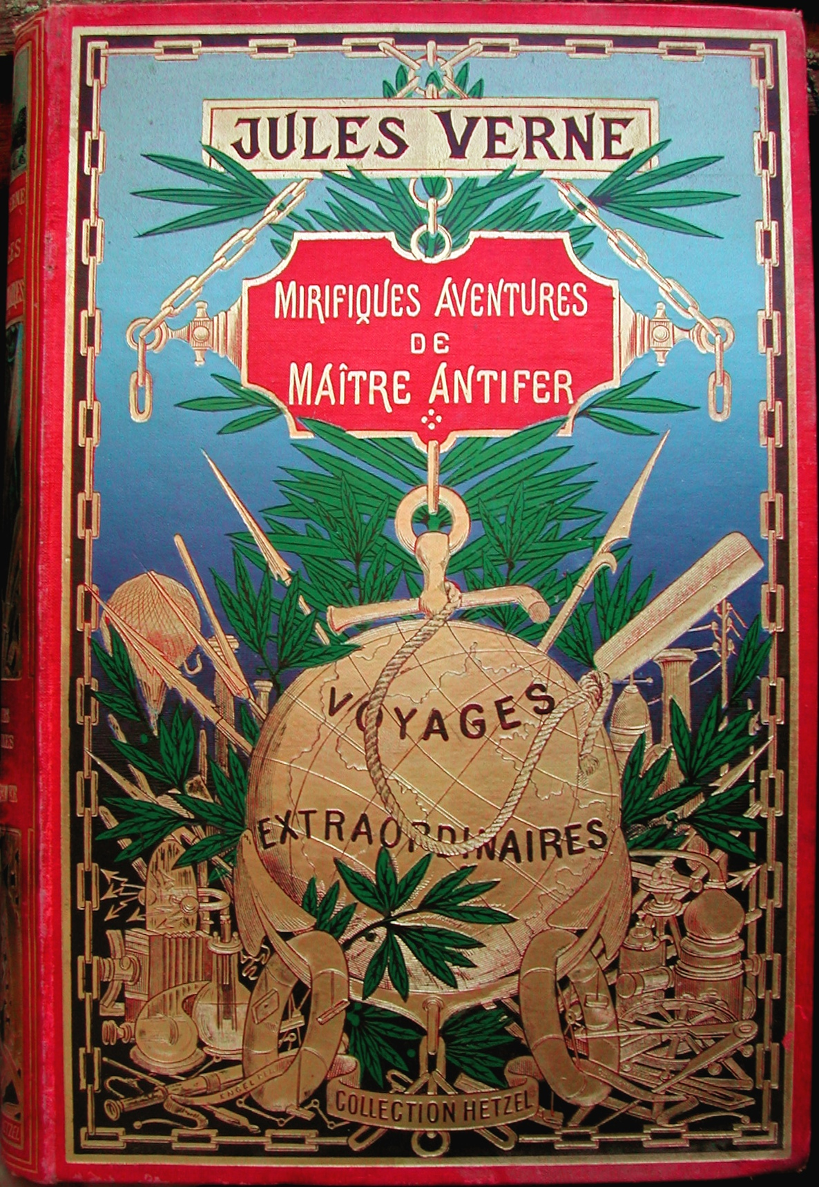 Cover book "The Wonderful Adventures of Captain Antifer".